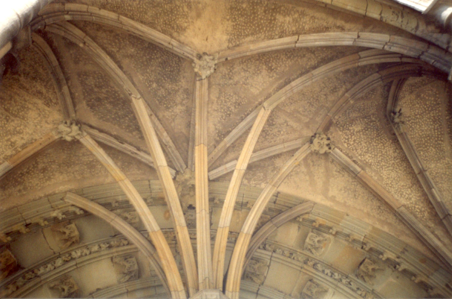 vault of the golden gate of Prague Castle's cathedrale St Vitus